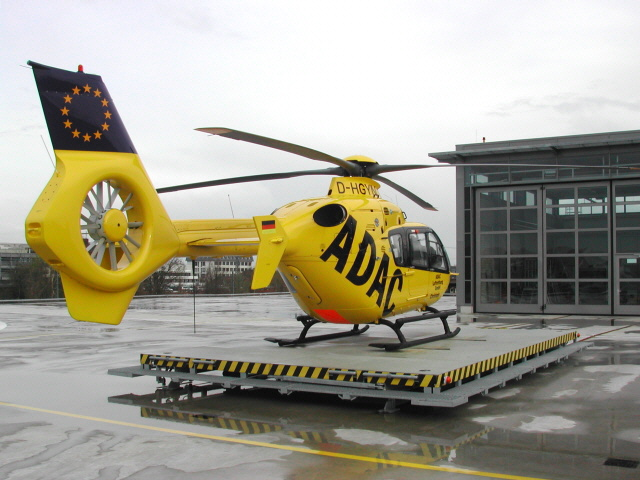 EMS helicopter Christoph Europa 2, based in Rheine, Germany, and operated by ADAC Luftrettung